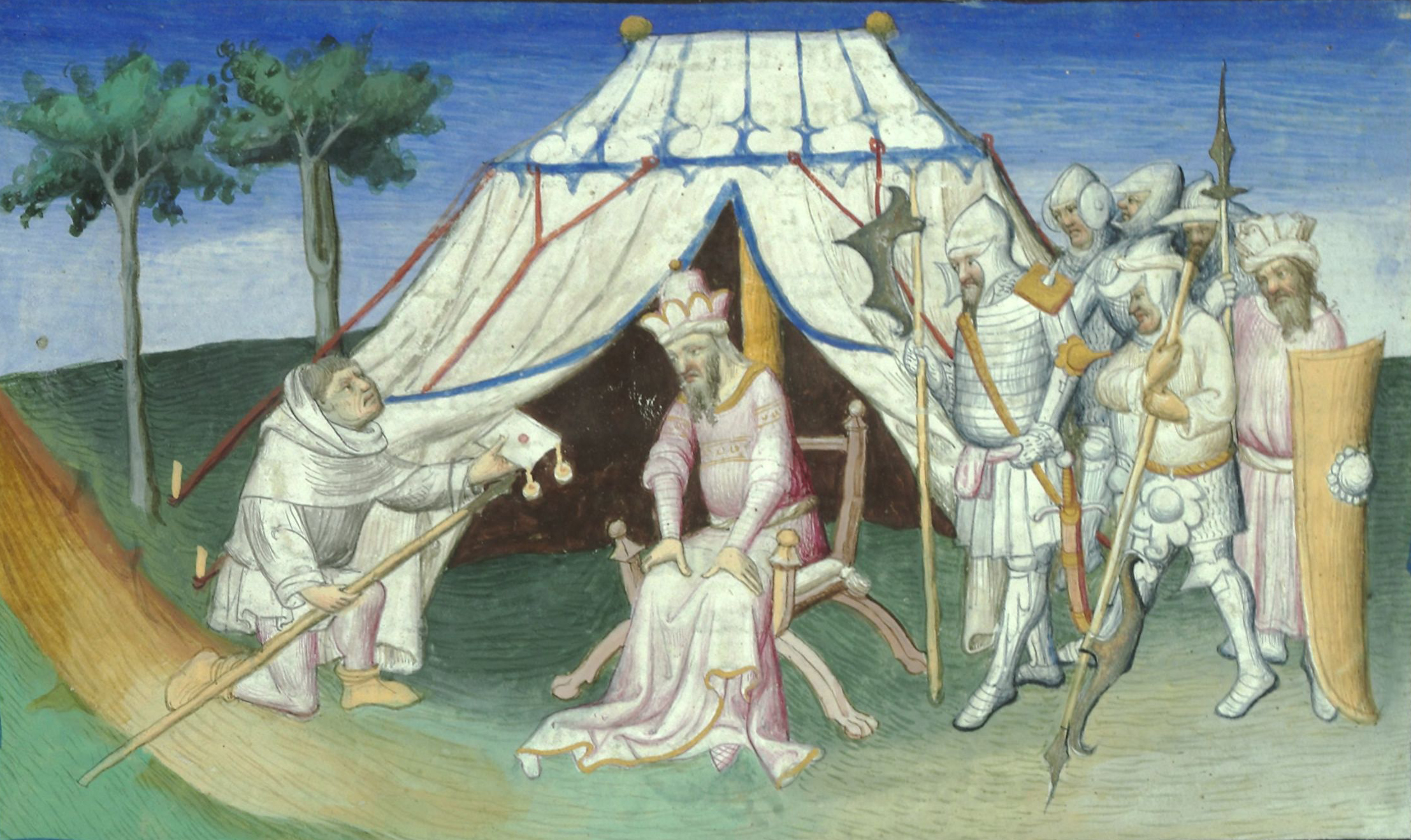 Ghazan ordering the King Of Armenia to accompany Kutkusha on the 1303 attack on Damas. 15th century "Le Livre des Merveilles", folio 251v.